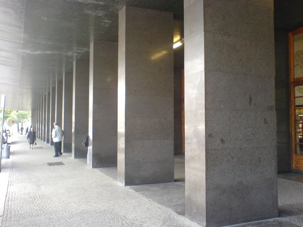 Columnade of Trento's Train Station by Angiolo Mazzoni (Bologna, 1894 – Roma, 1979) (1934-/36). This picture was taken by Giovanni Iachello.